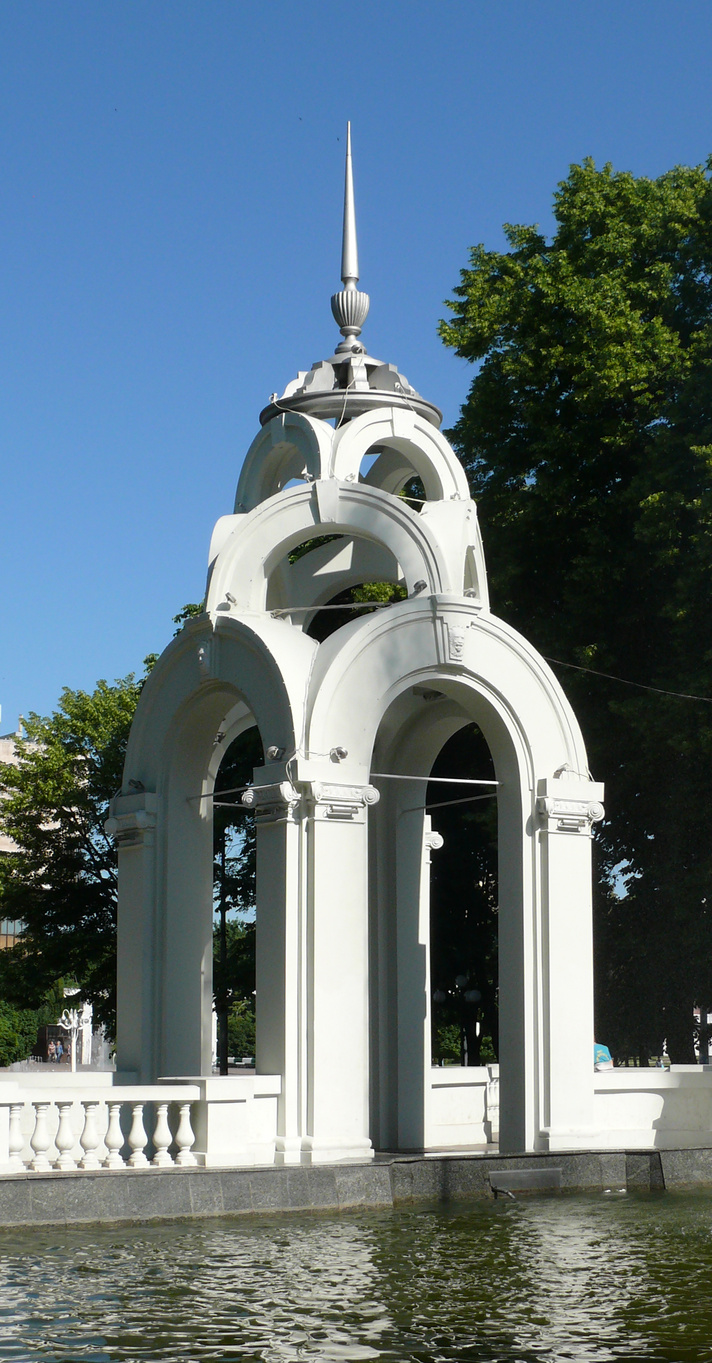 Rotunda in Kharkov Victoria Square